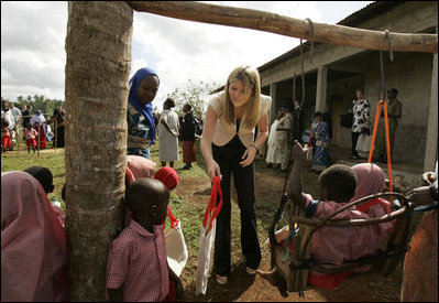 Jenna Bush talks with children during a visit Al Rahma Madrasa Pre-School in Zanzibar, Tanzania